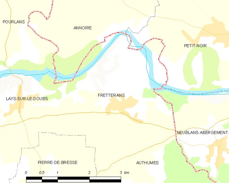 Map of French municipality